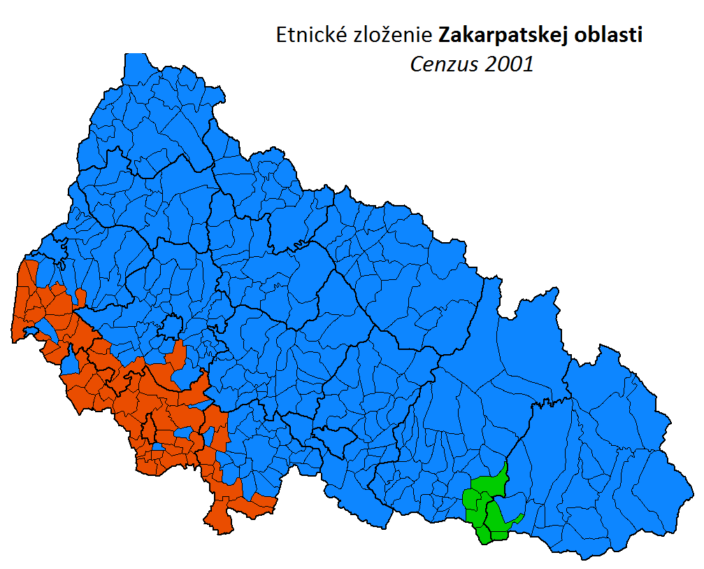 Ethnic structure of Zacarpathian Ukraine.